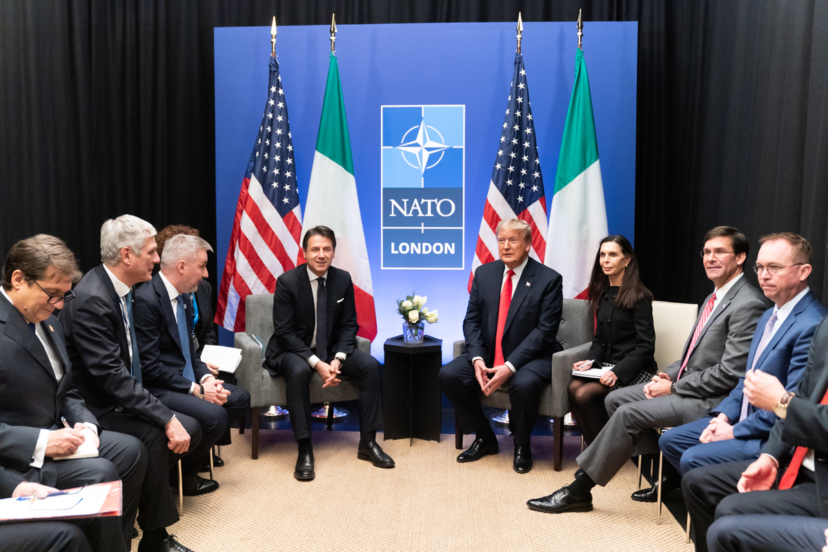 President Donald J. Trump participates in a pull-aside meeting with the Prime Minister of the Italian Republic Giuseppe Conti during the North Atlantic Treaty Organization (NATO) 70th anniversary meeting Wednesday, Dec. 4, 2019 in London. (Official White House Photo by Shealah Craighead)